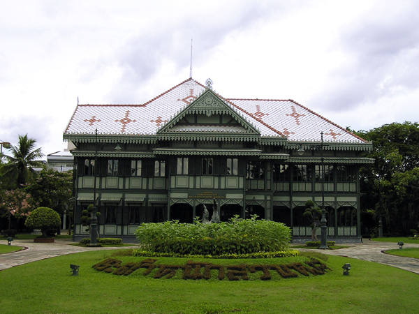 Suan Hong Residential Hall, Dusit Palace Bangkok, Thailand